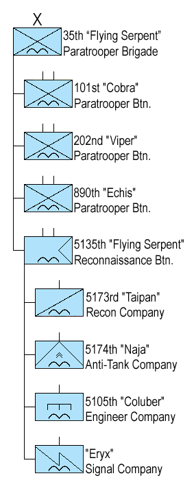 Structure of the Israel Defense Forces Paratroopers Brigade.